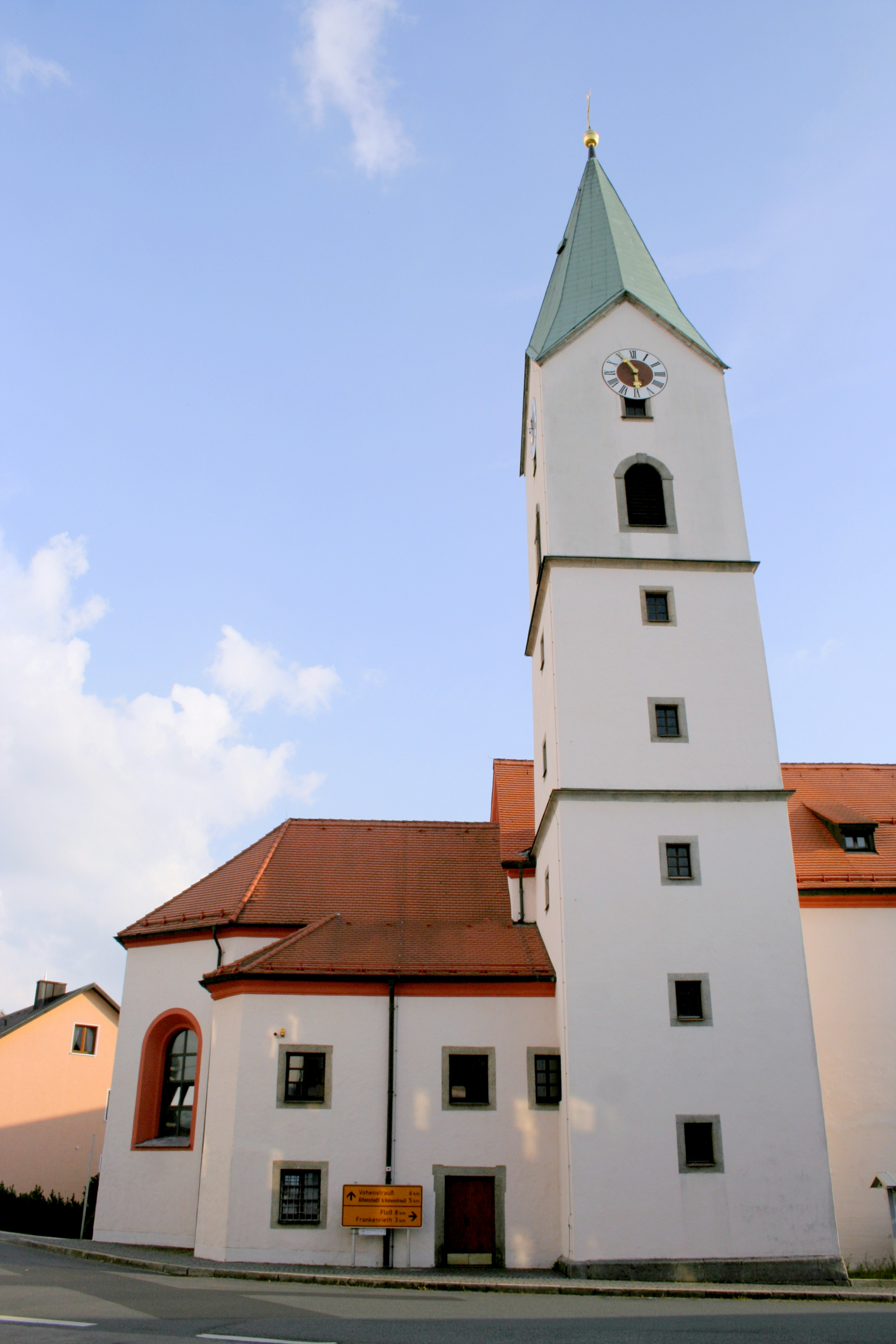 Heritage Building; Germany; Bavaria; Upper Palatinate; administrative district Neustadt a.d. Waldnaab, Waldthurn; catholic church St. Sebatian (D-3-74-165-1)